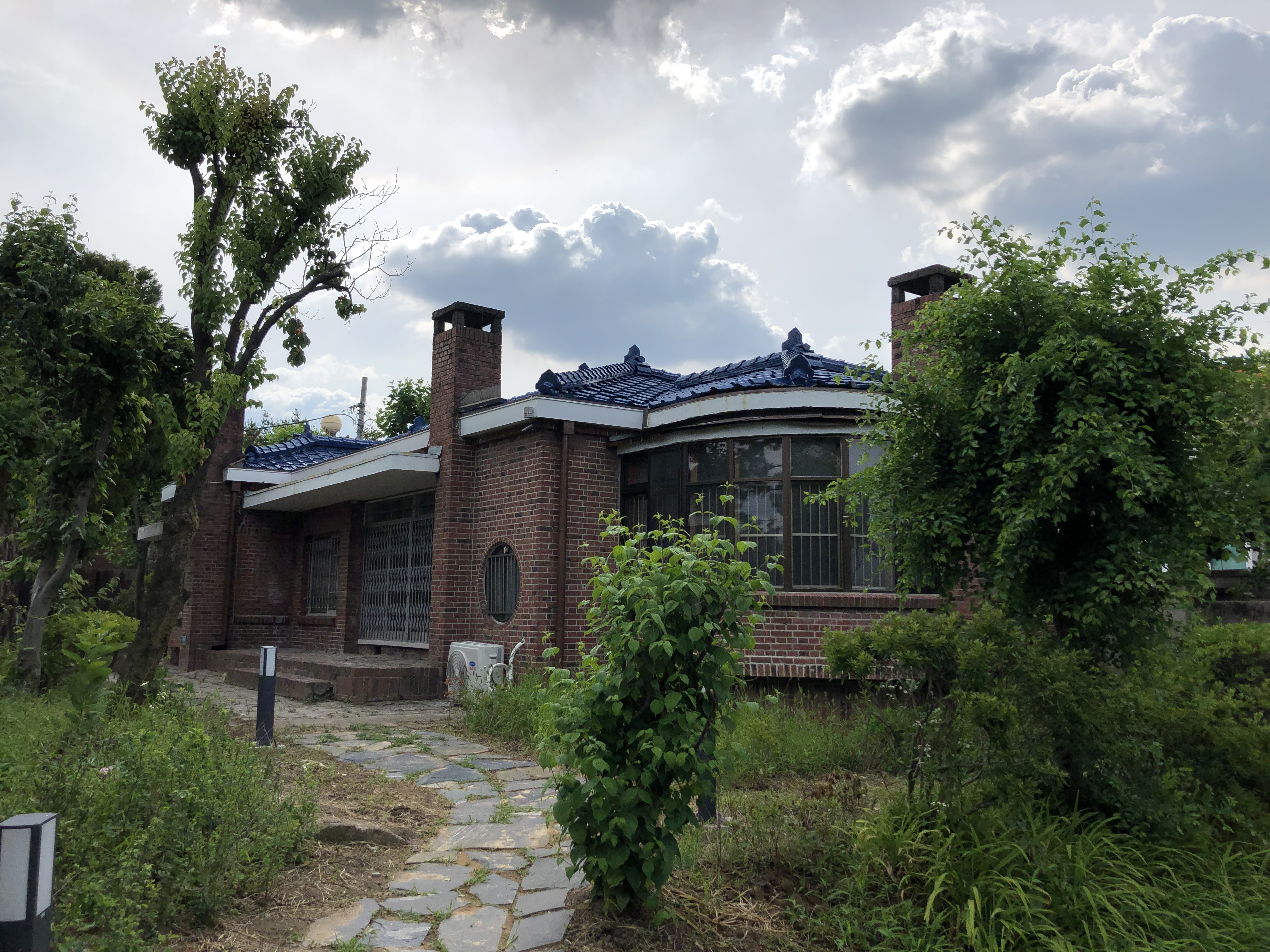 Former Official Residence No. 6 in Temiorae, Daejeon